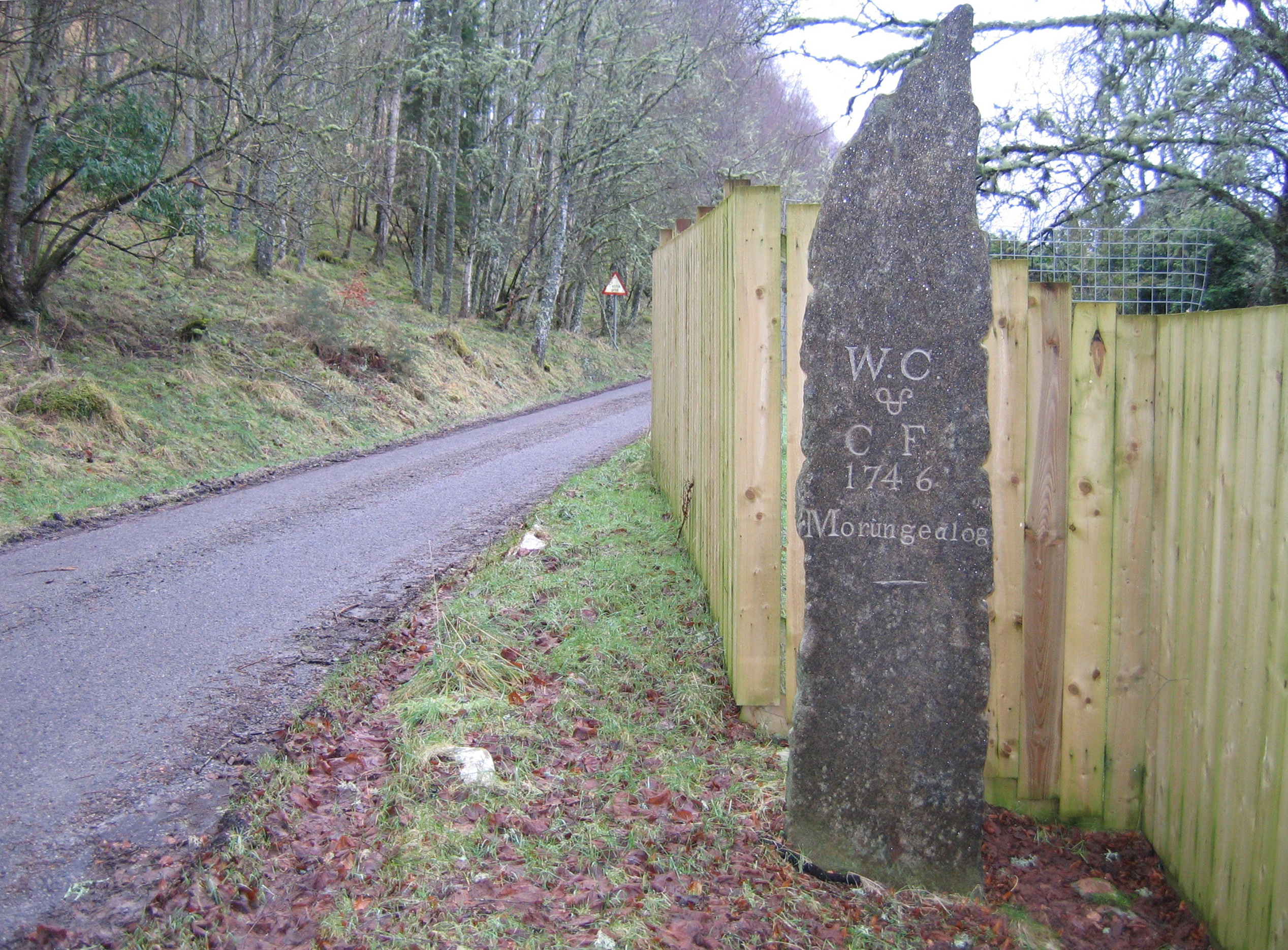 Mo Rùn Geal Òg The Chisholm Stone, a memorial by the roadside near Mauld. The inscription reads: W.C. & C.F. 1746 Mo rùn geal òg It is in memory of William Chisholm, who lived in a cottage near here with his wife, Christina Ferguson. He was the standard bearer for the chief of Clan Chisholm, and left to fight at the Battle of Culloden, where he was killed. In his memory Christina composed the Gaelic lament "Mo Rùn Geal Òg" (My Fair Young Love).